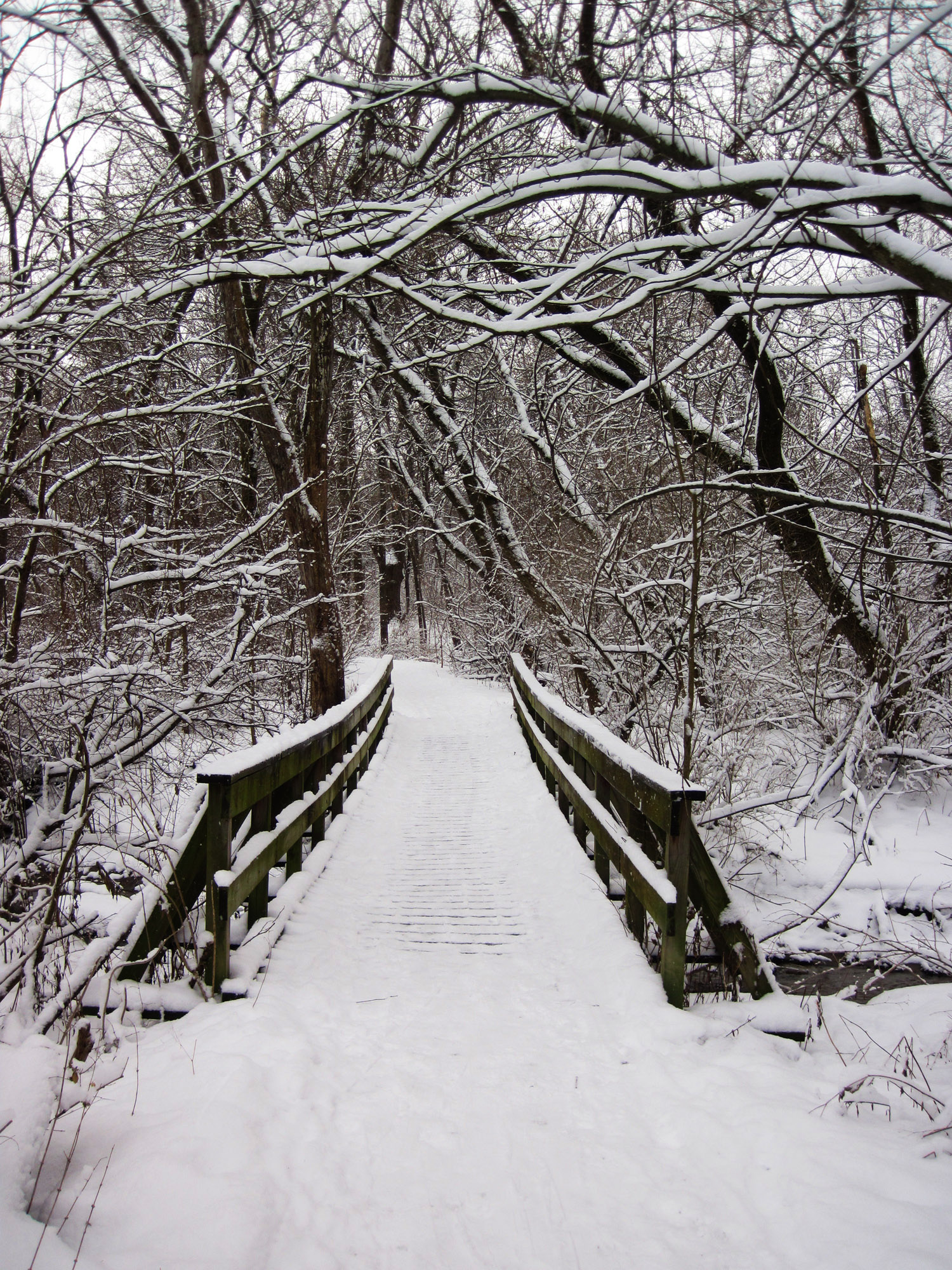 Hickory Hill Park bridge